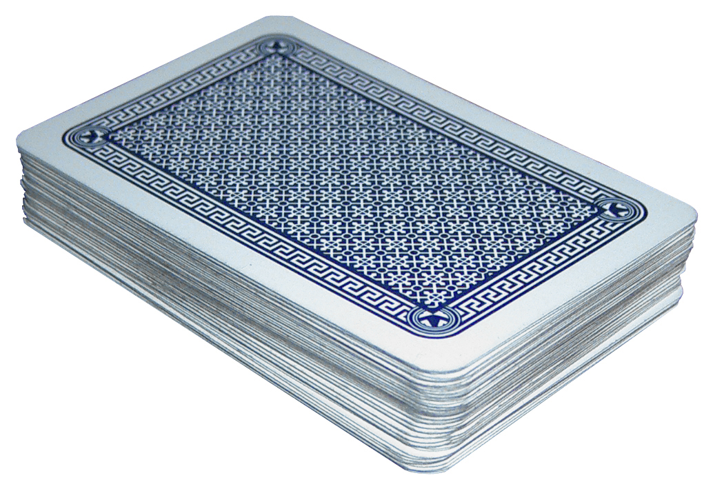 Pack of playing cards.